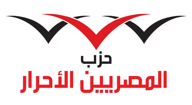 Egyptian_Liberal_Party Logo